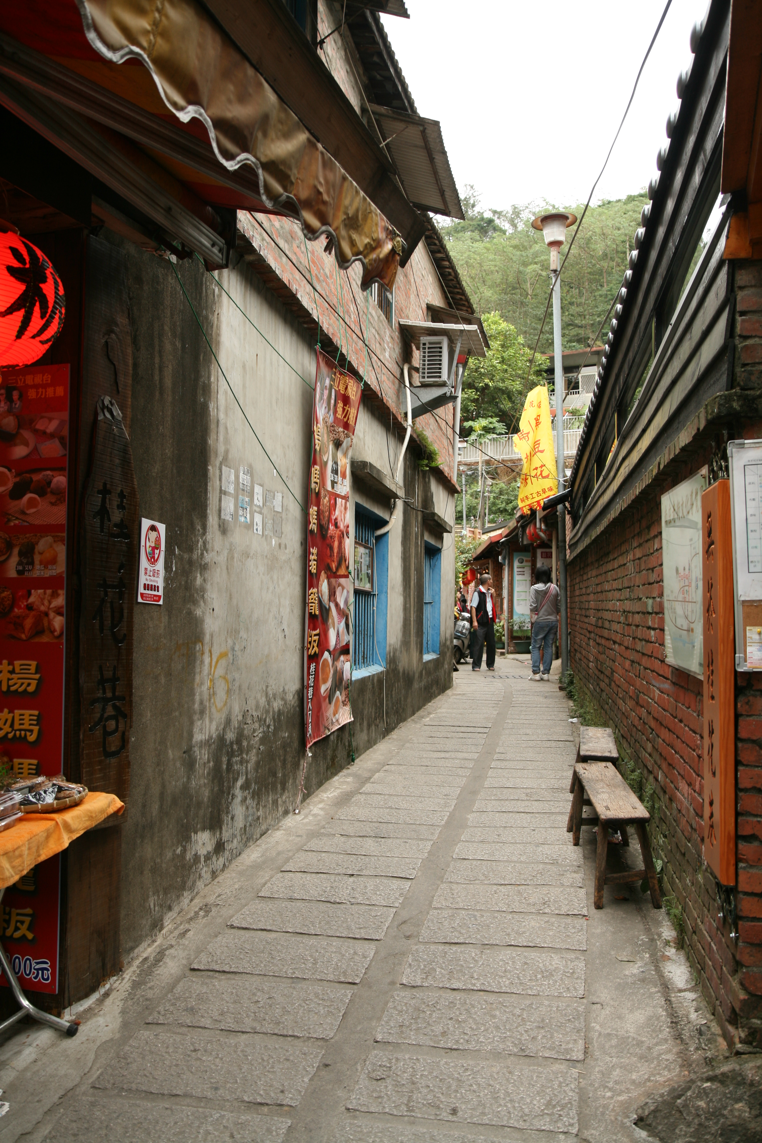 Sweet Osmanthus Lane, Nanzhuang Old Street, Miaoli County.